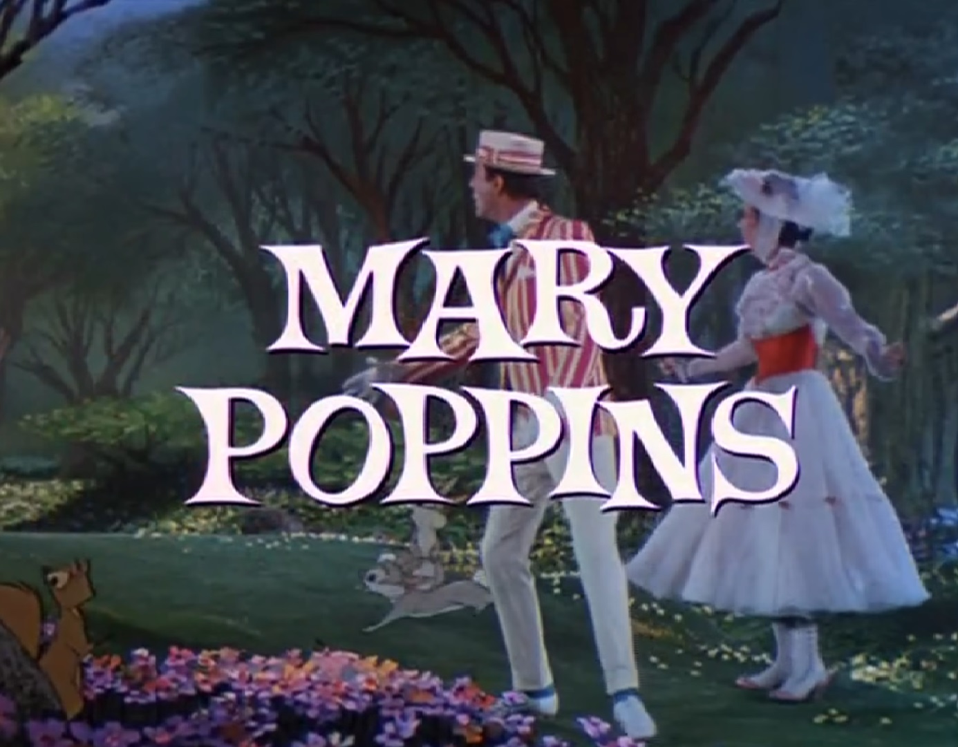 Screenshot from the trailer for the film Mary Poppins